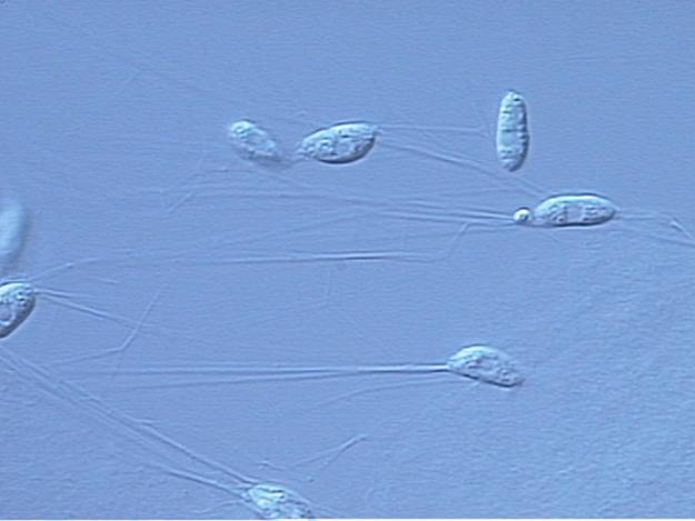 Aplanochytrium, Life Specimen